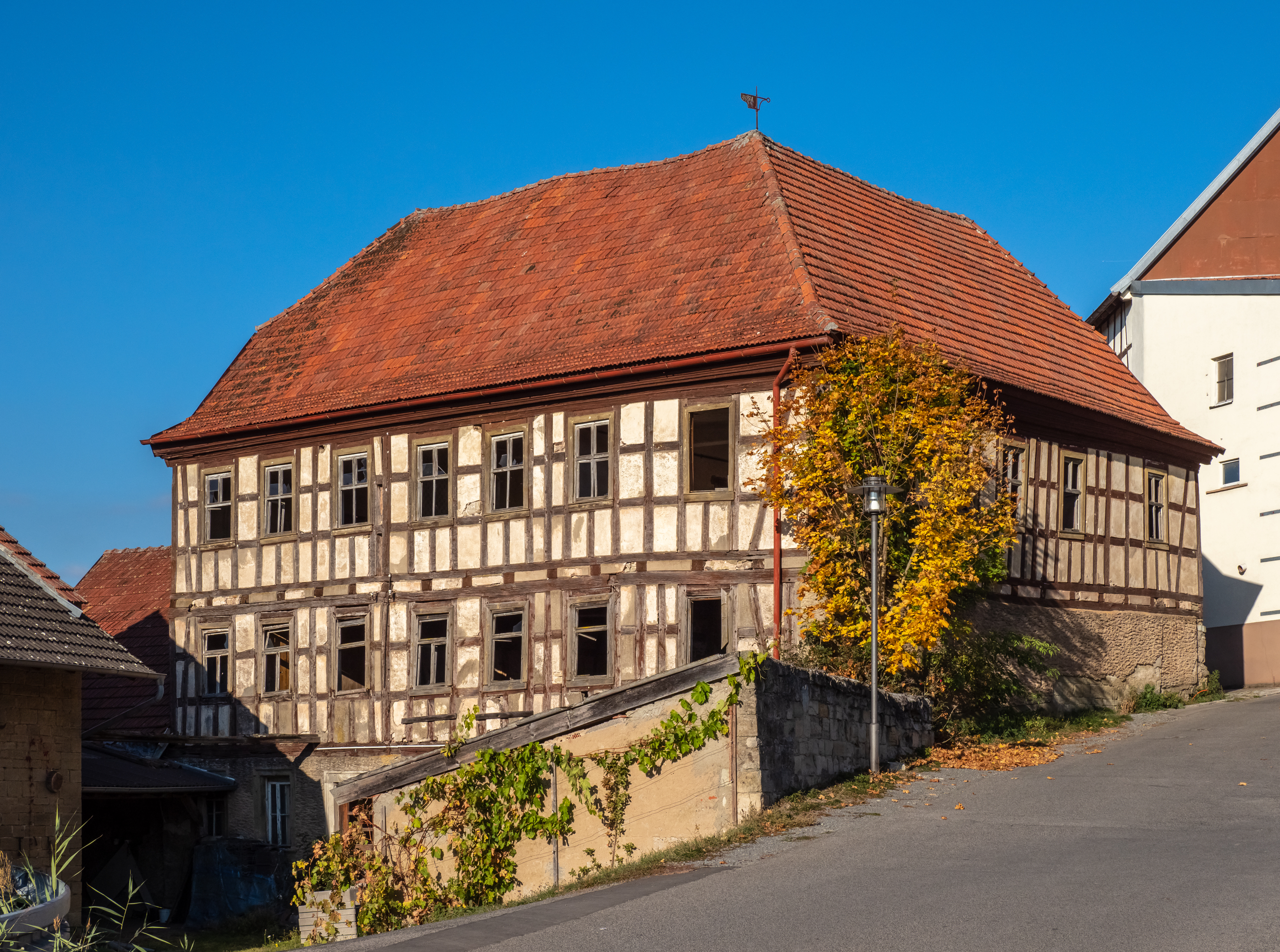 Former mill in Sechstahl near Zeil am Main Year of construction 1811